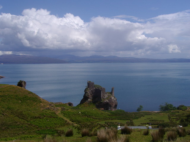 Brochel Castle Constructed sometime during the fifteenth century, Brochel Castle remained occupied until 1671, when the Laird of Raasay, Iain Garbh, died. Little is known of the castle as references in the historical record are sporadic.